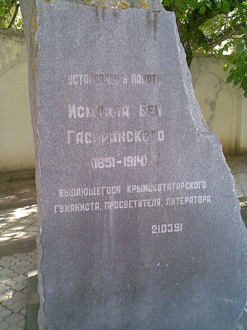 Зинджирли-медресе